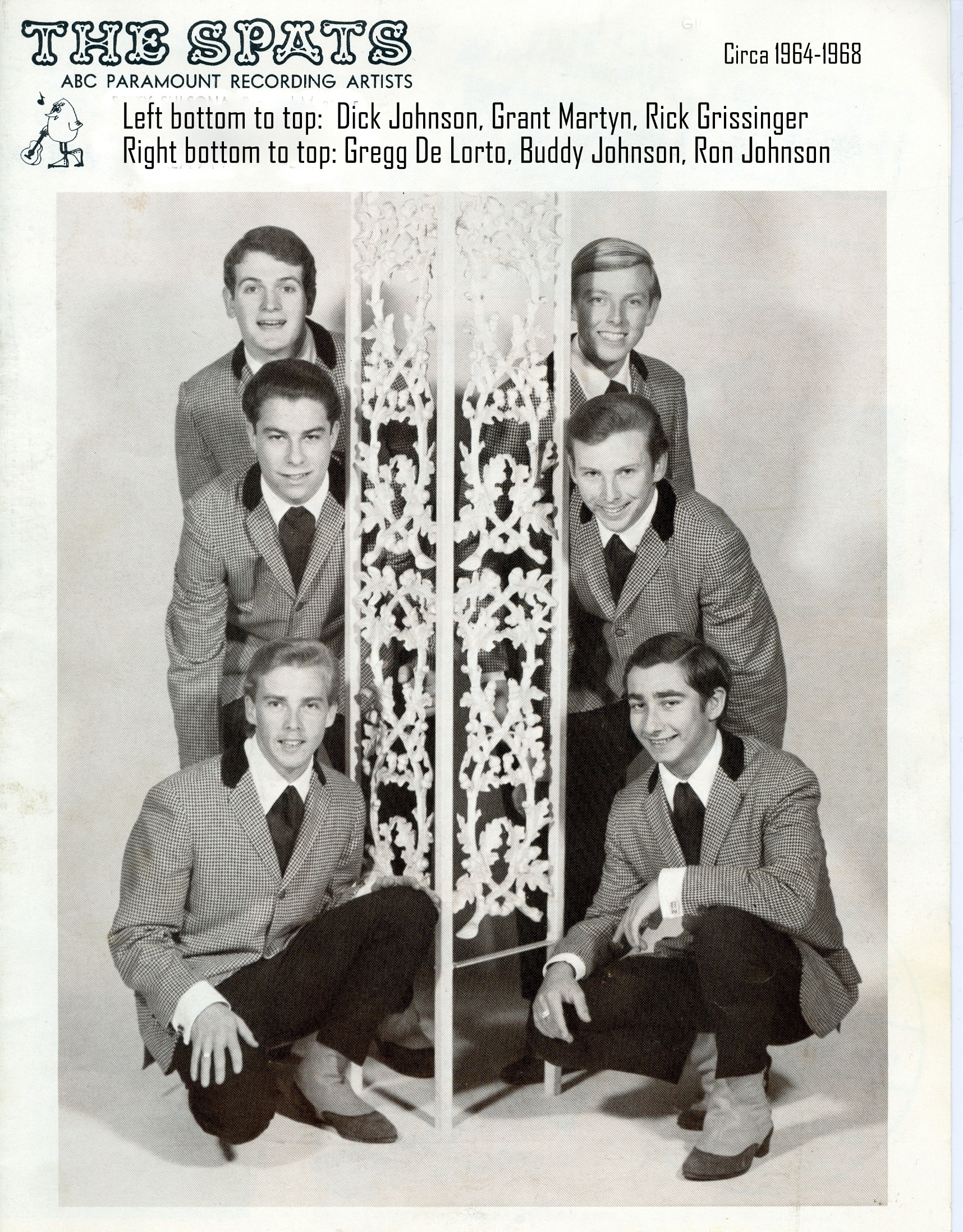 1967 - The Spats Left bottom to top: Dick Johnson, Grant Martyn, Rick Grissinger Right bottom to top: Gregg De Lorto, Buddy Johnson, Ron Johnson